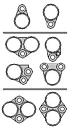 Drawing of typical combination gun or zwilling (top), drilling (middle), and vierling (bottom) layouts.